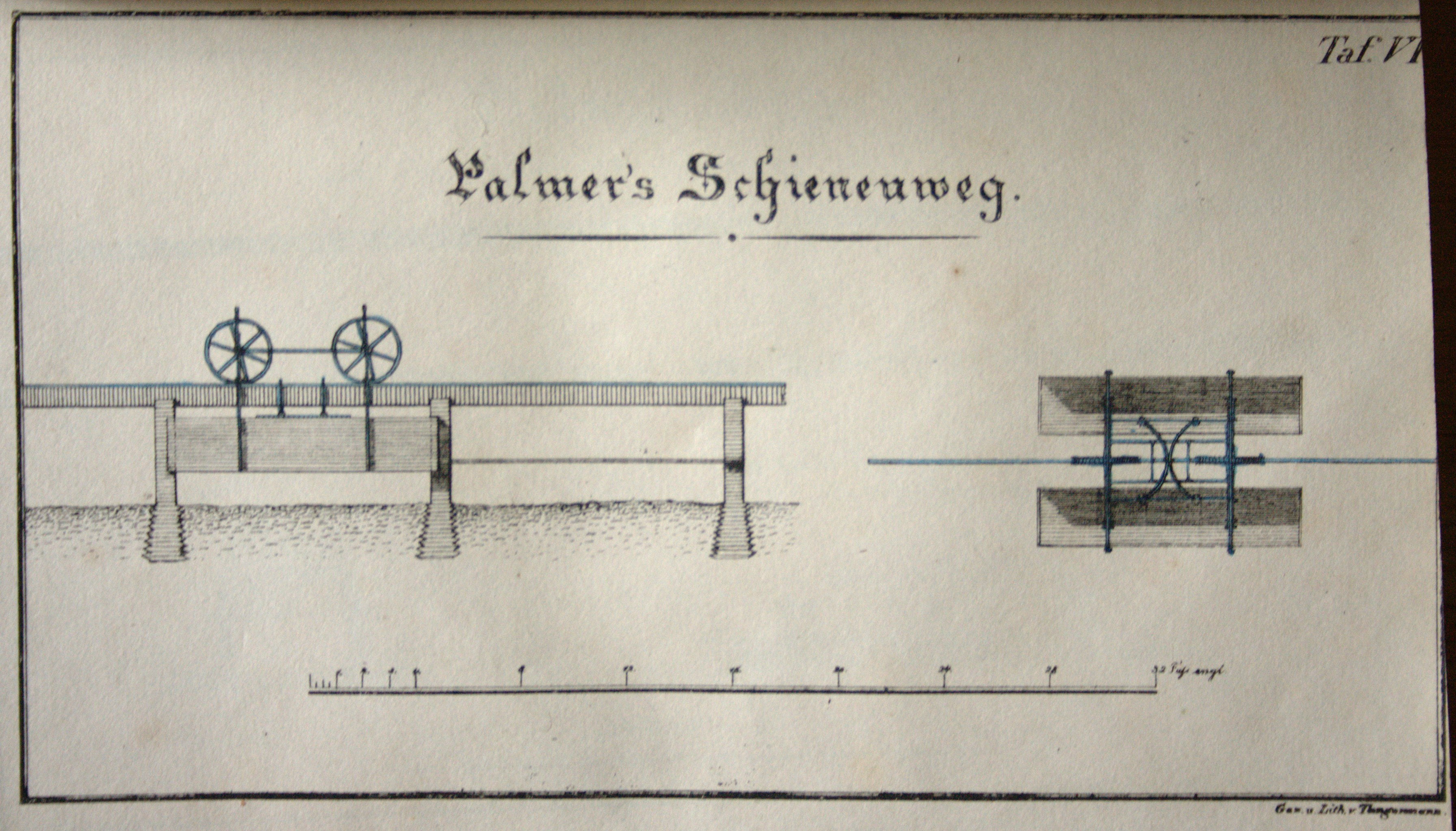 Henry Robinson Palmer's monorail. An early version of a suspended railway. At least resembling the Lartigue Monorail. Measurements in feet.